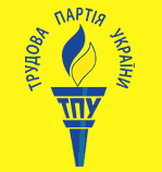 party logo if the party "Labour Party Ukraine"; that has since 2009 is called "Strong Ukraine"